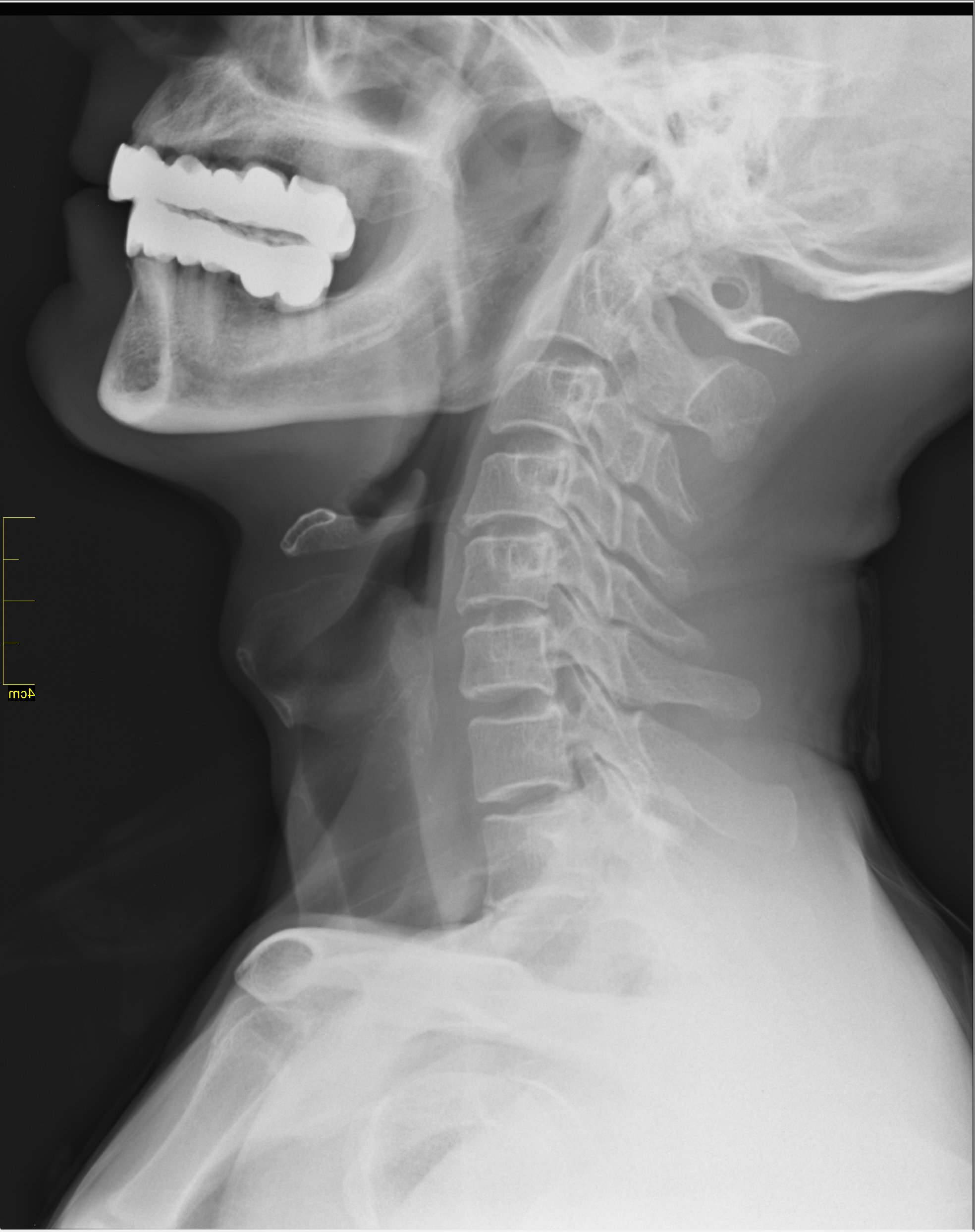 Medical X-rays.